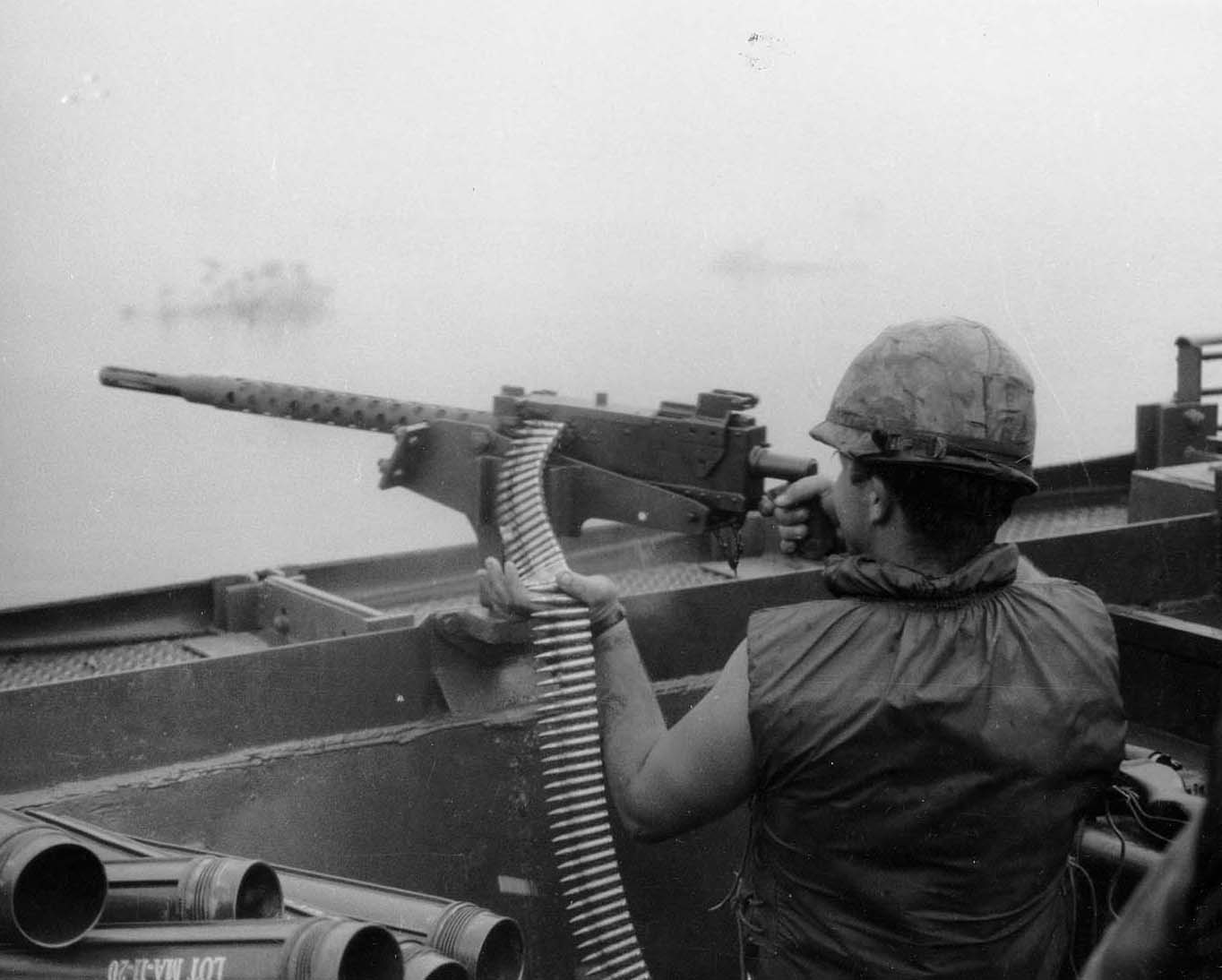 Navy Machine Gunner of the Riverine Force. Mk 21 (M1919 variant) mg pictured.